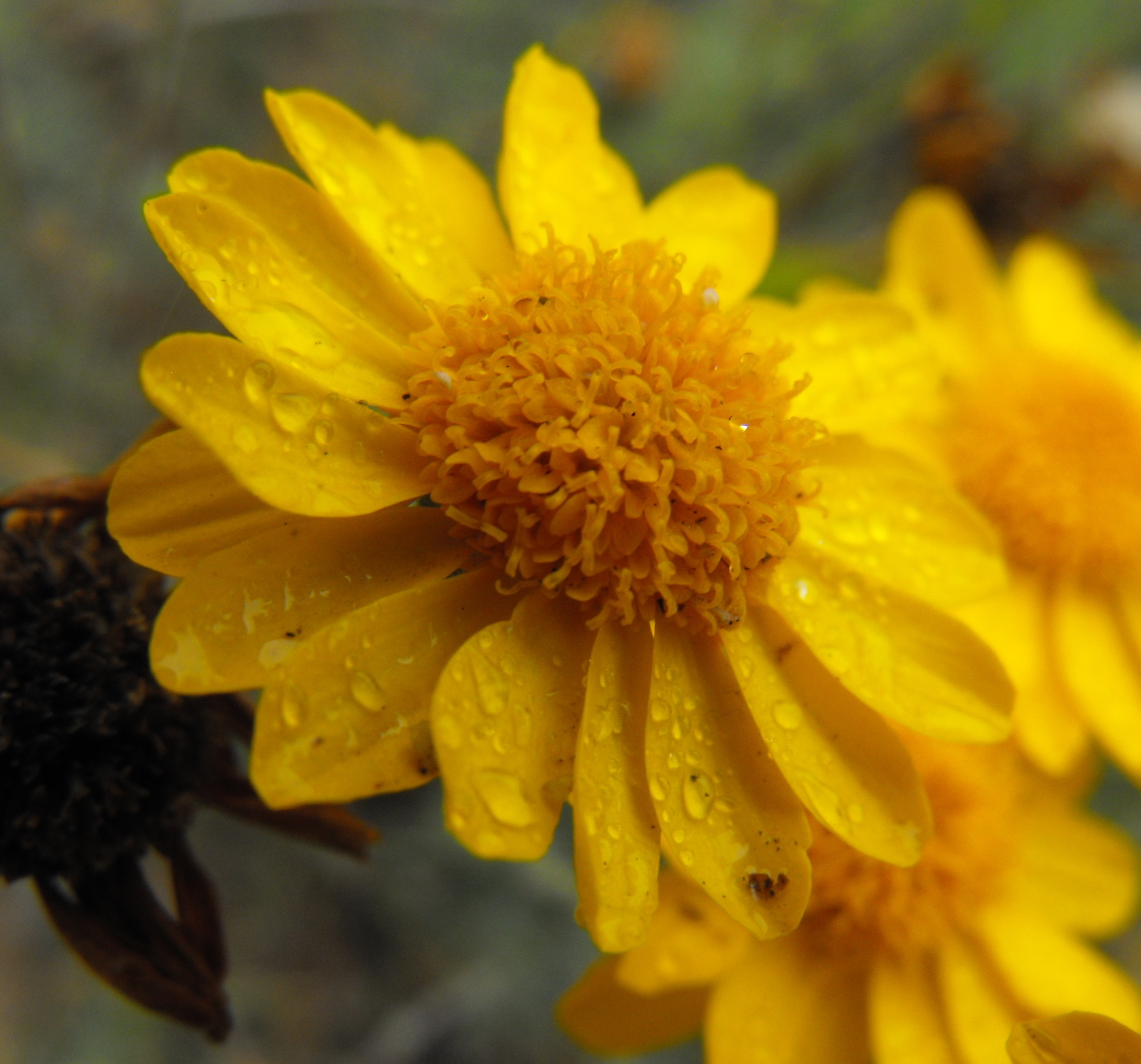 Thymophylla pentachaeta at Quail Botanical Gardens in Encinitas, California, USA. Identified by sign.